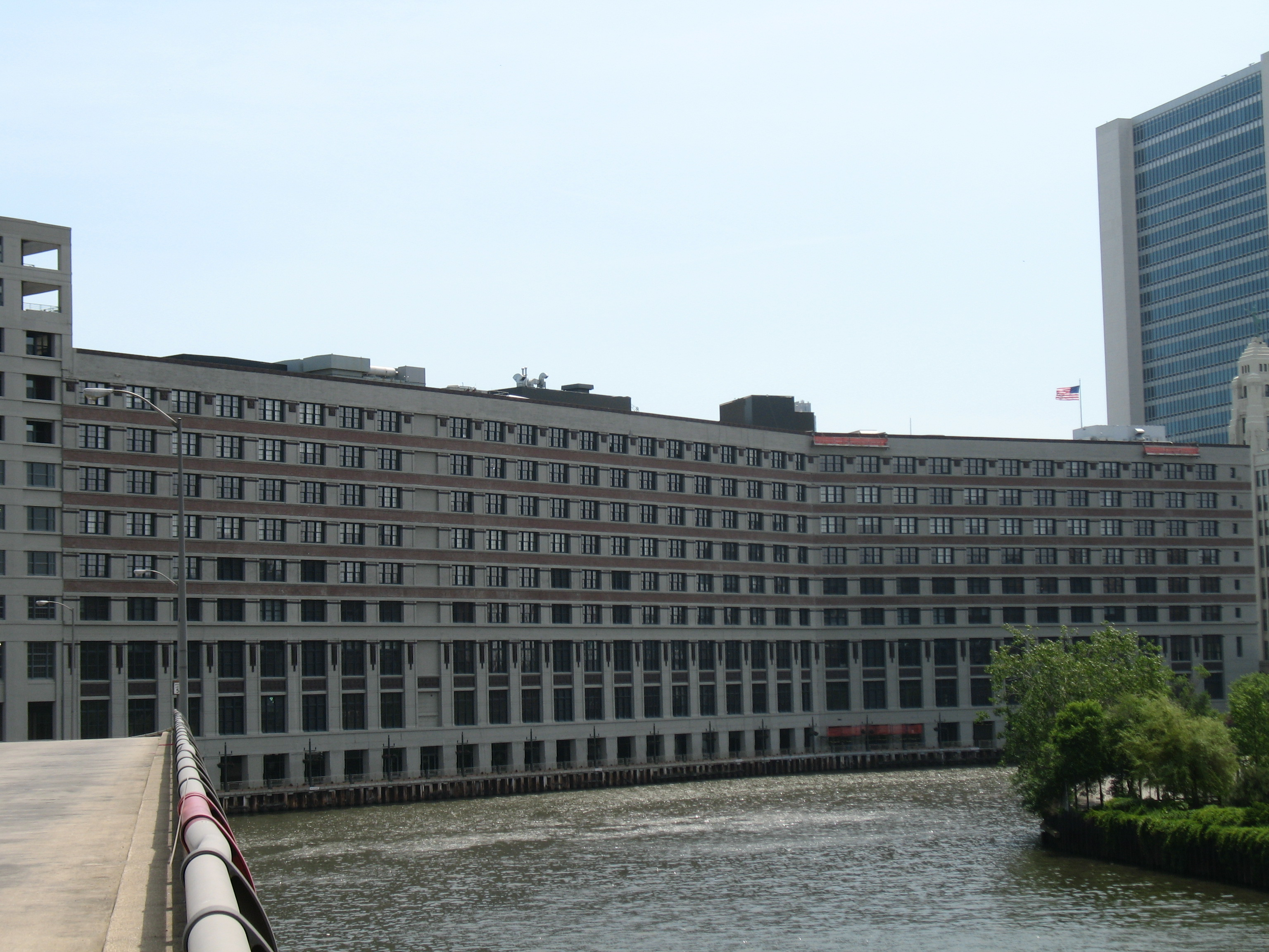 Montgomery Ward & Co. Catalog House